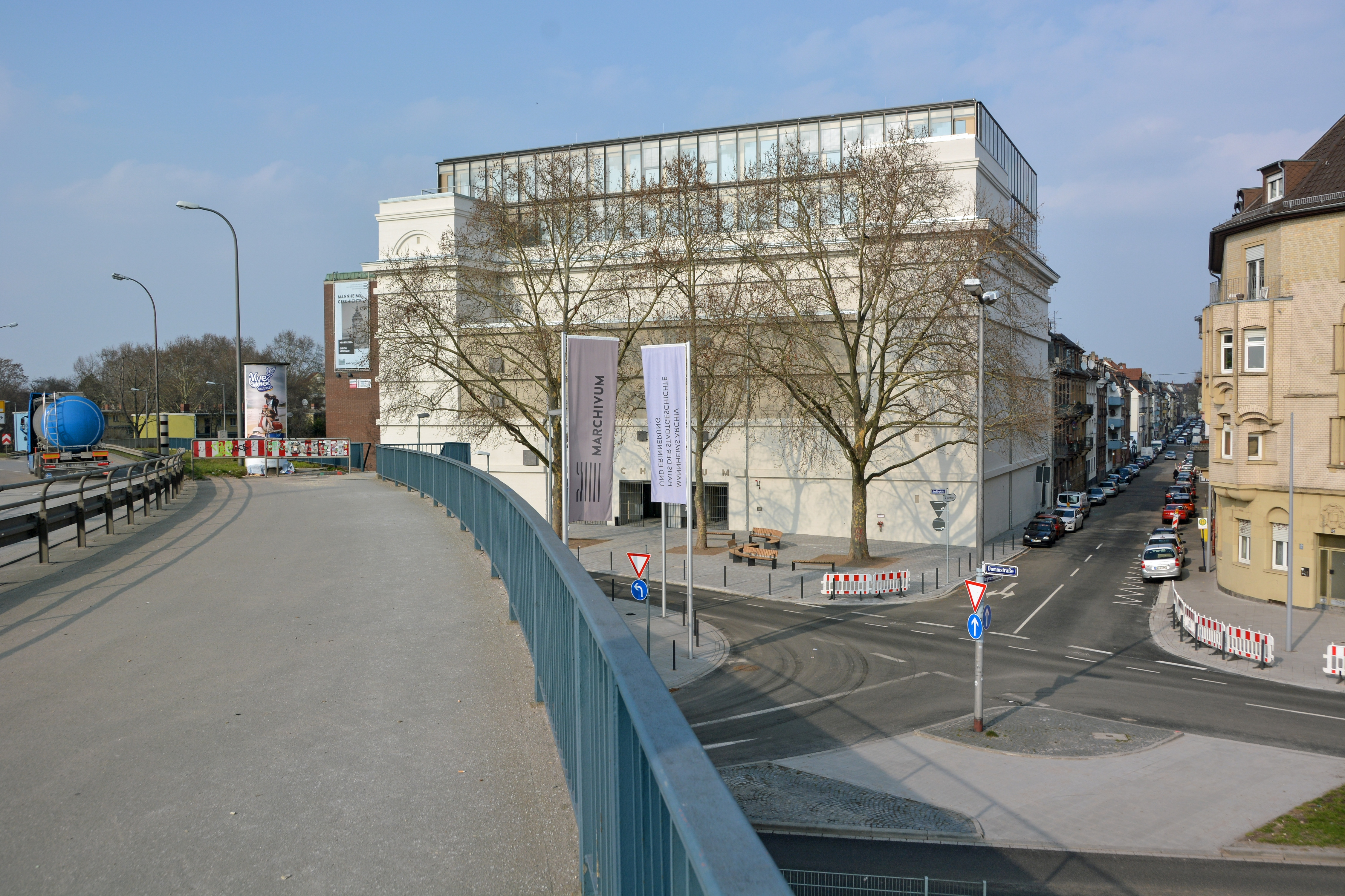 Ochsenpferchbunker Mannheim - Mannheim town archive